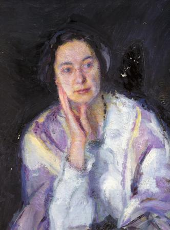 Portrait of Olga Signorelli